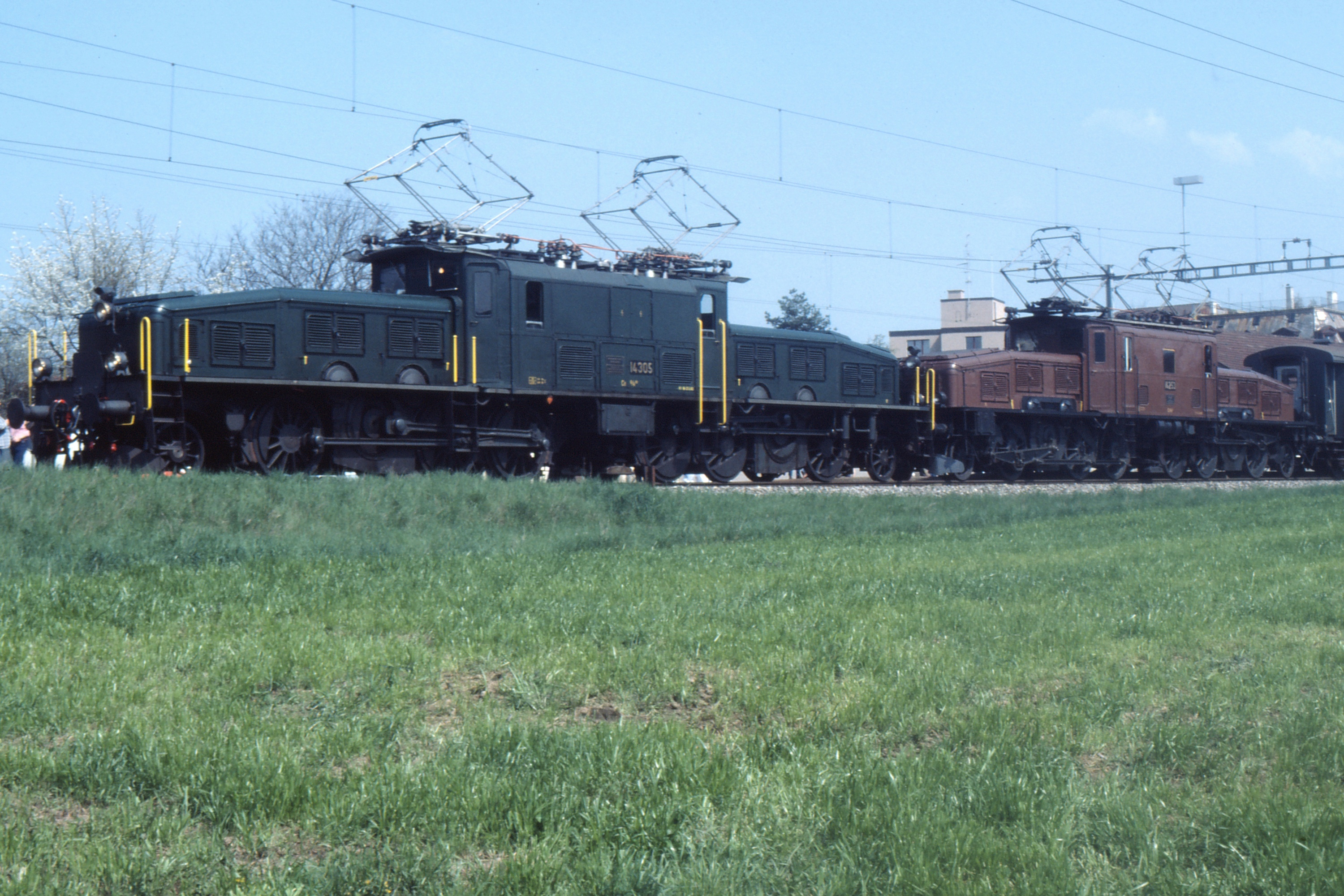 Swissrail "Krokodile" Ce 6/8 III green 14305 and Ce 6/8 II brown 14253 at Stein am Rhein Station.